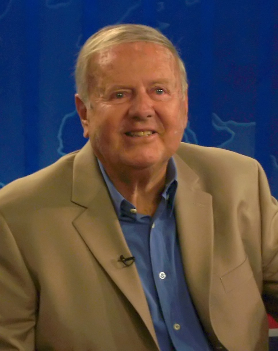 Dick Van Patten Please acknowledge "Phil Konstantin" as the creator of this photograph.